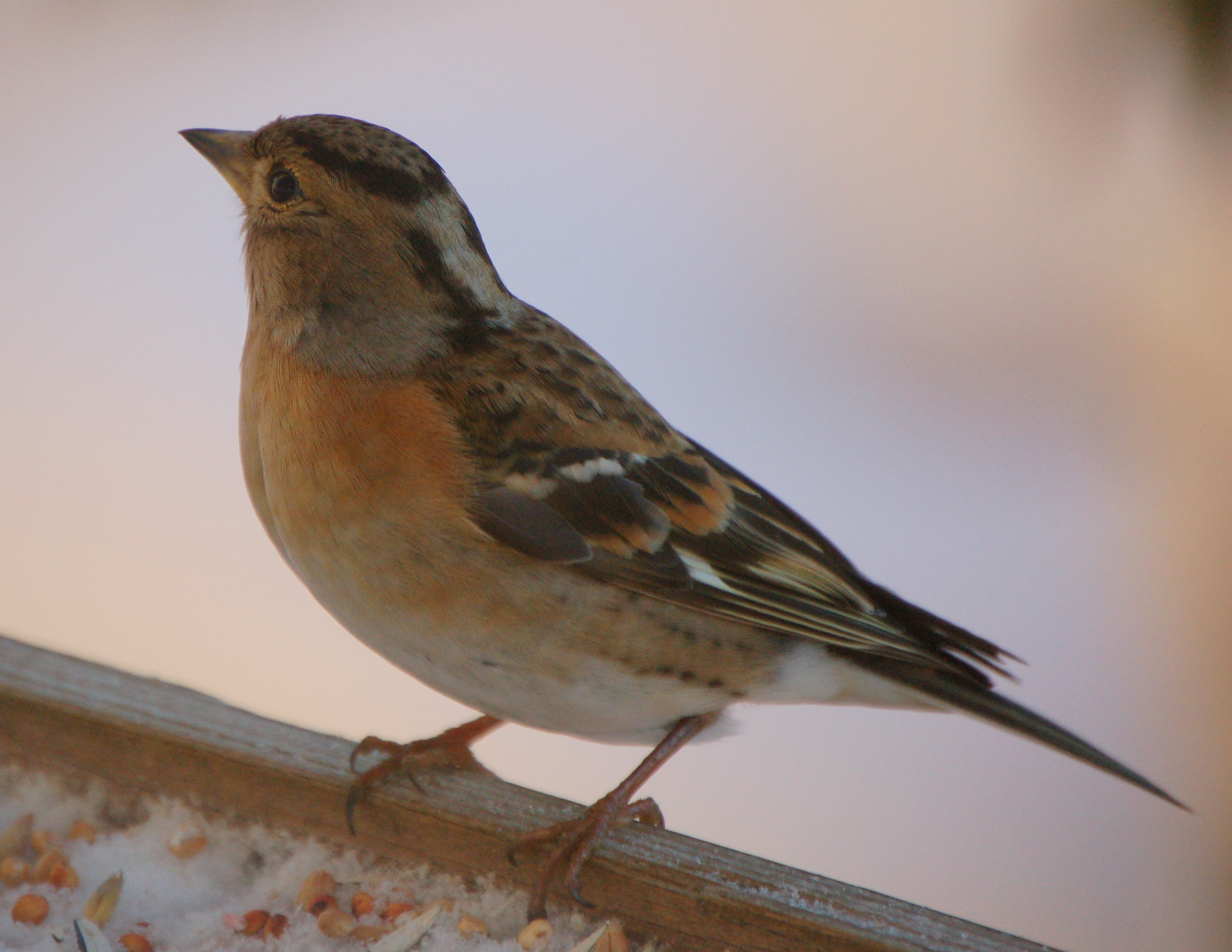 Brambling - female